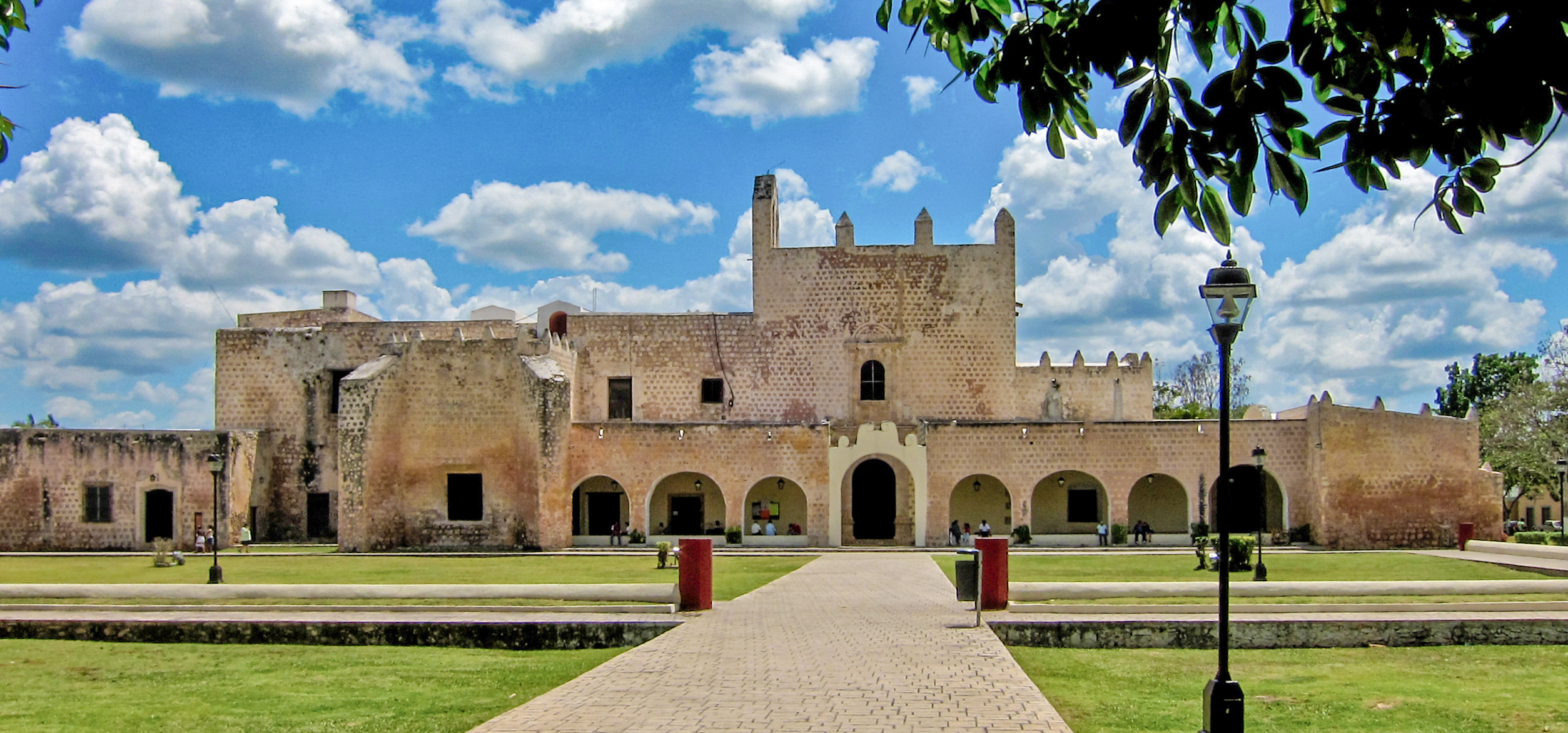 Very old. 15th Century.